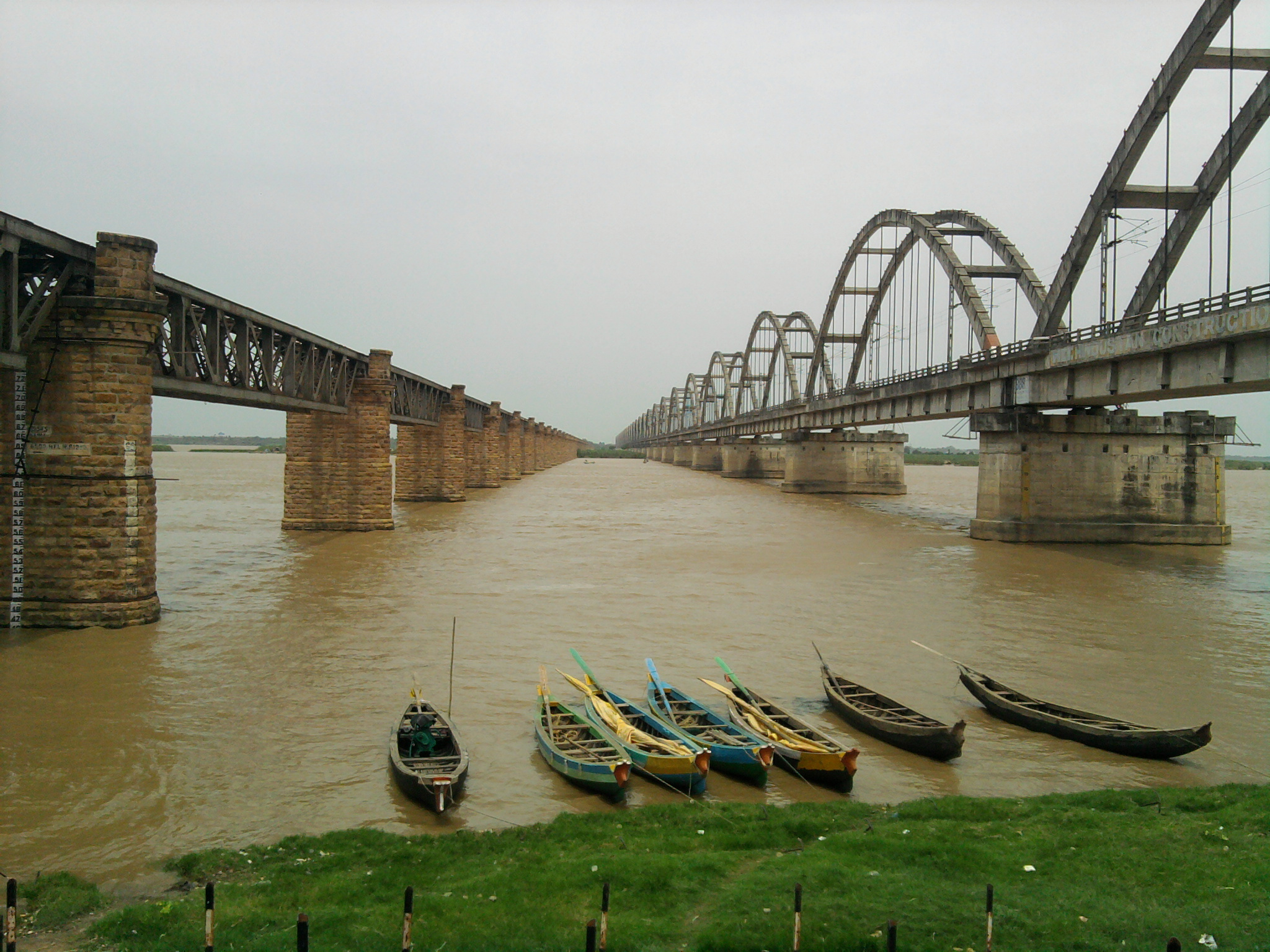 Godavari Bridge Image taken using Ramesh Ramaiah's Samsung camera.